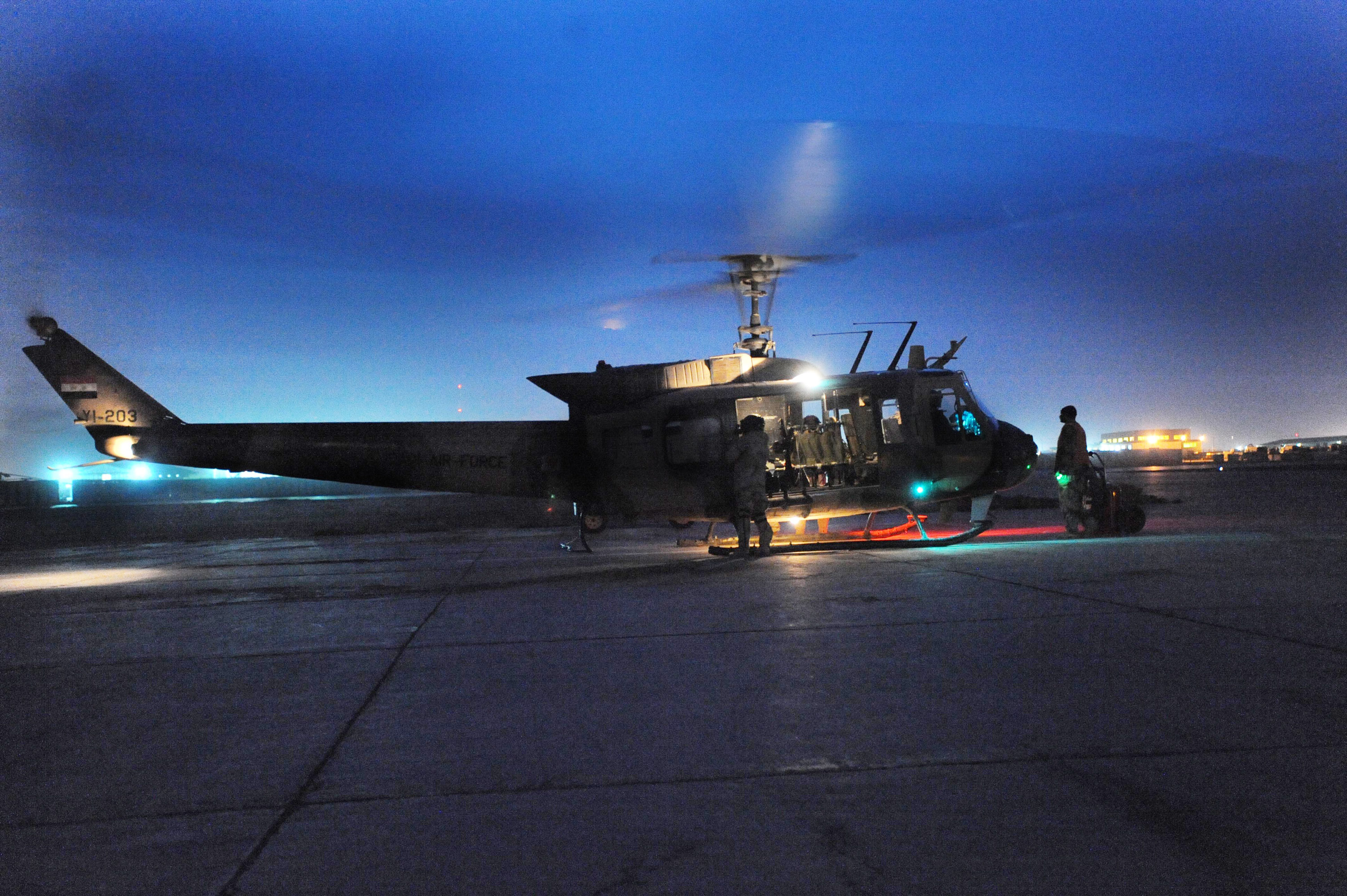 Aircrews from the Iraqi 2nd Squadron begin their first night-vision goggle certification flight with assistance from 721st Air Expedition Advisory Squadron at Camp Taji, Iraq, 8 February 2009.